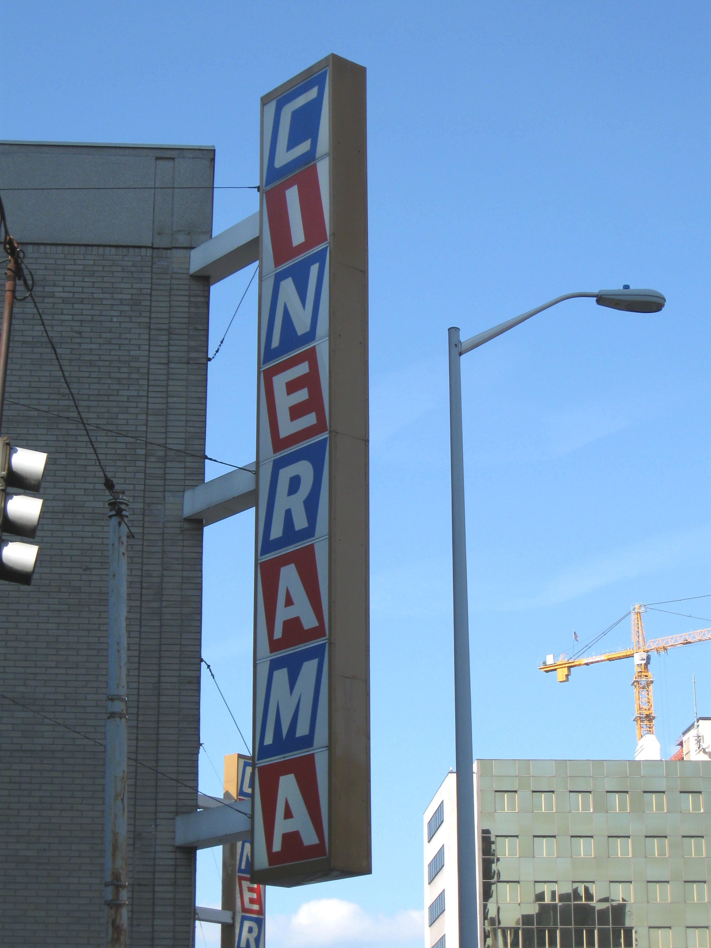 Seattle Cinerama, on 4th Avenue in Seattle's Belltown neighborhood.